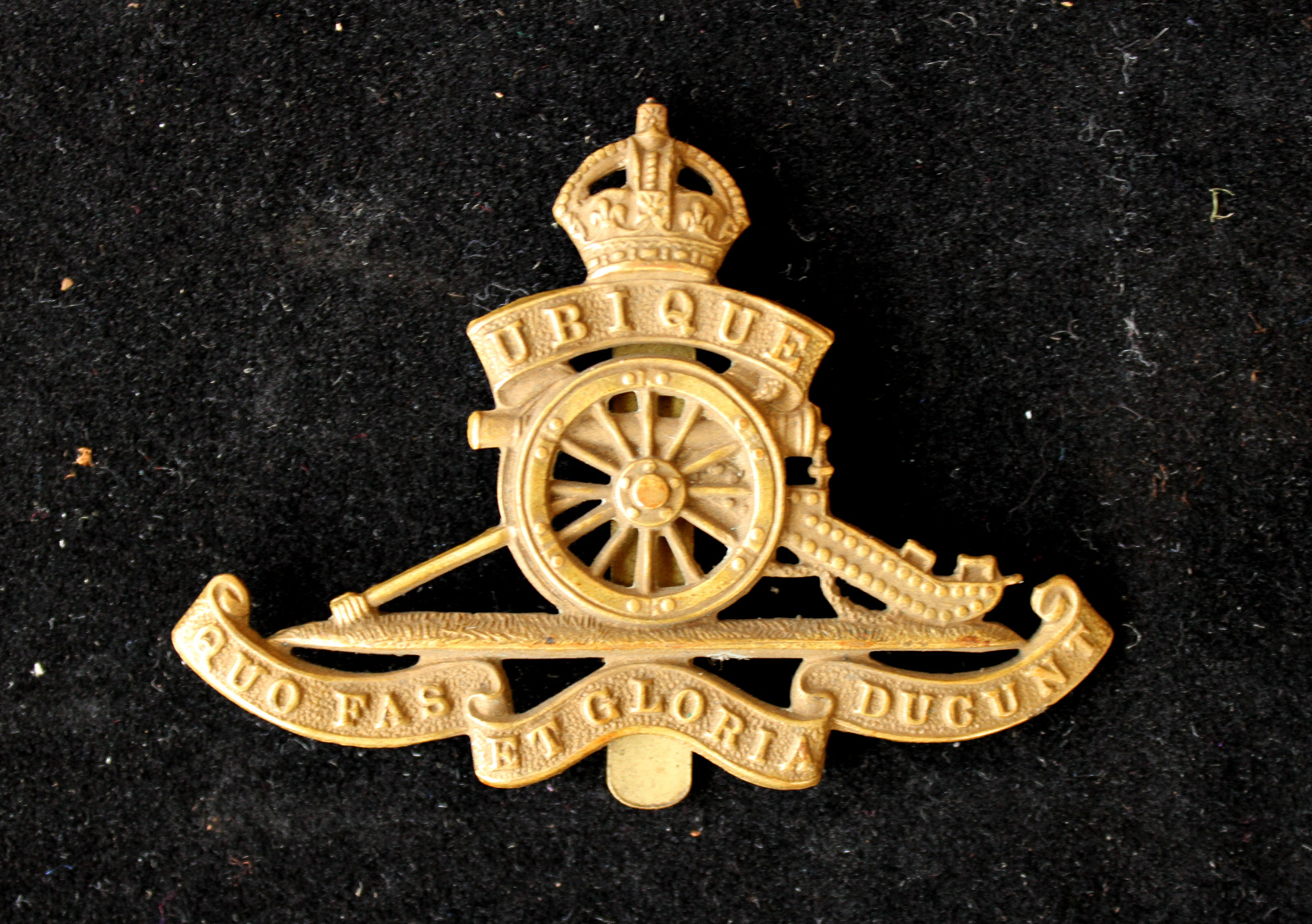 Alfred Hunton, 3rd then 9th Norfolk Regiment, was the grandfather of Jill Gooch who has contributed his Soldiers' Small Book with medals, badges and service papers. He was a shoemaker - a family tradition (the contributor and her parents also worked in the shoe industry). No story is attached to A. Hunton; nothing has passed down to the family. One of the medals belonged to Pte Wright, but his identity is unknown. The cap badge (Royal Artillery) is also unrelated.